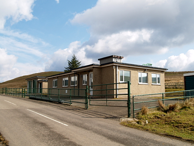 A closer view of the Seismological Station